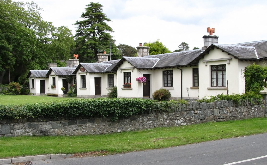 The restored Seaforde Almshouses